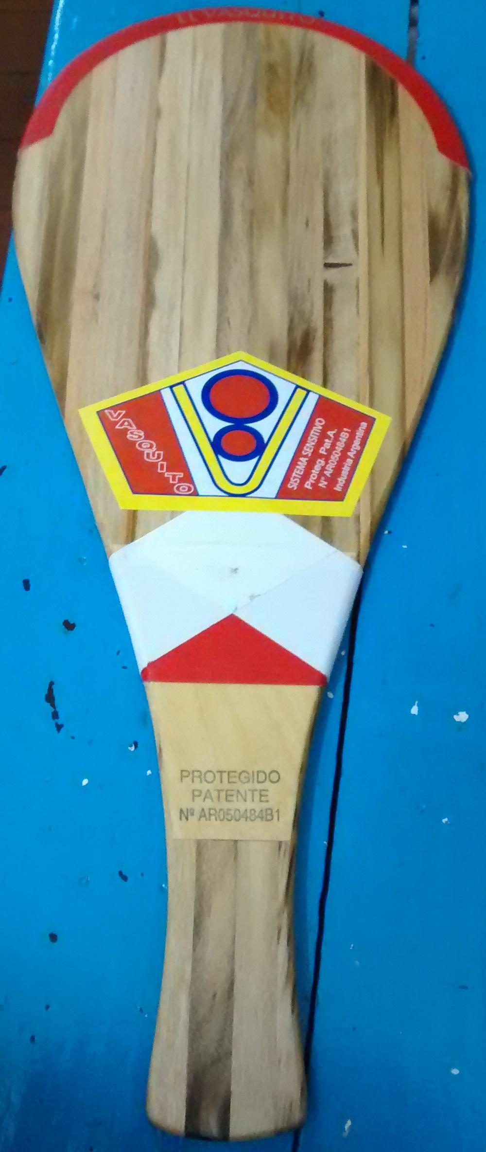 Argentine multi-layered wooden paleta (bat). Vasquito brand, model V8